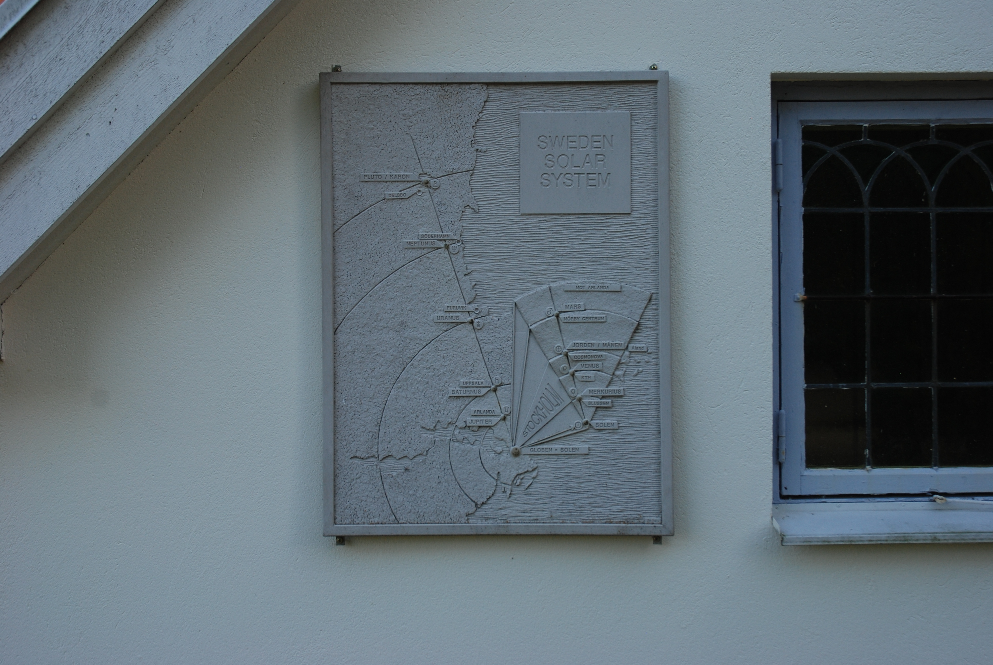 Relief sculpture on Sweden Solar System, by artist Erik Ståhl, Margaretavägen, Knivsta, Sweden